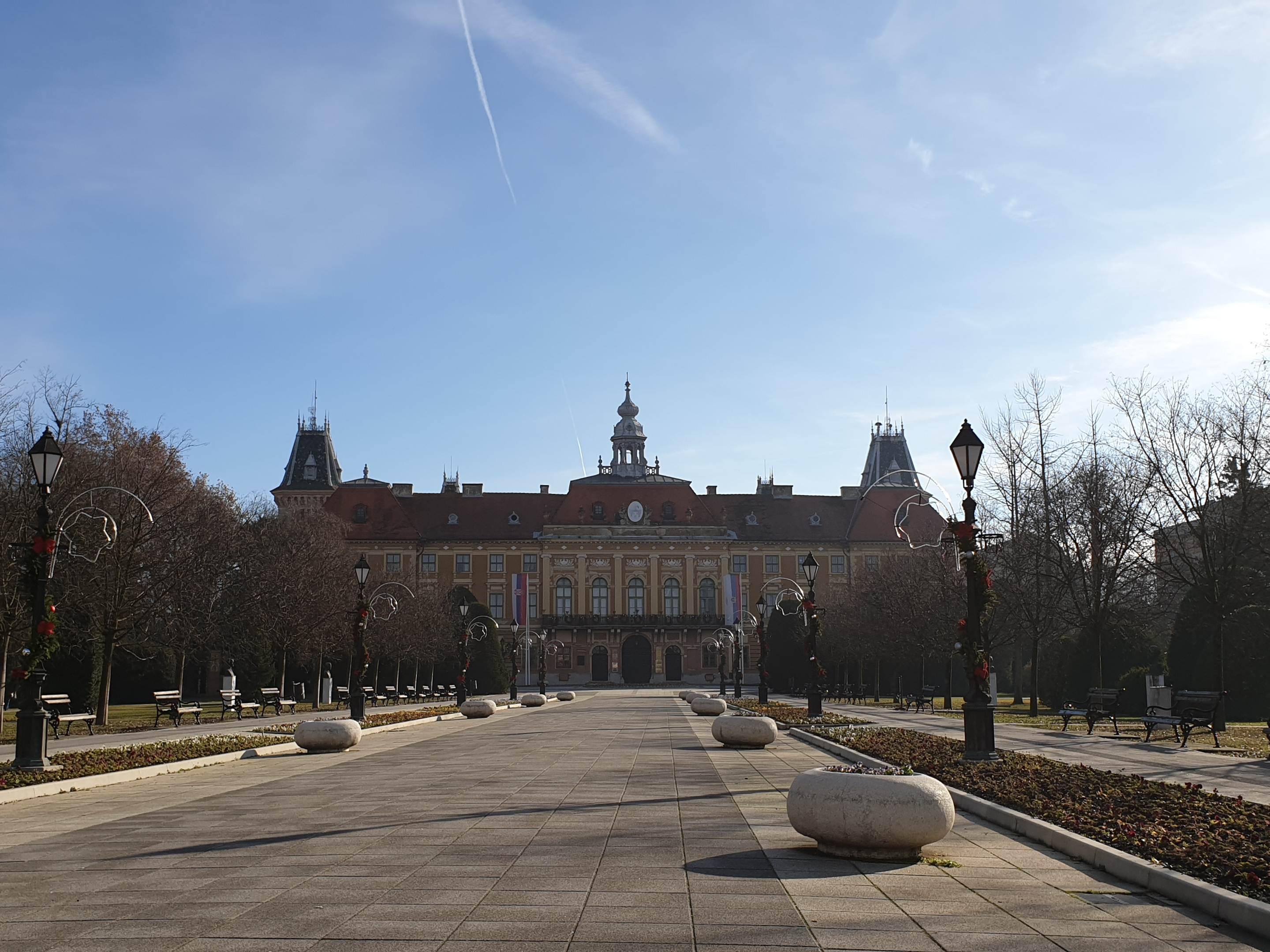 Županija